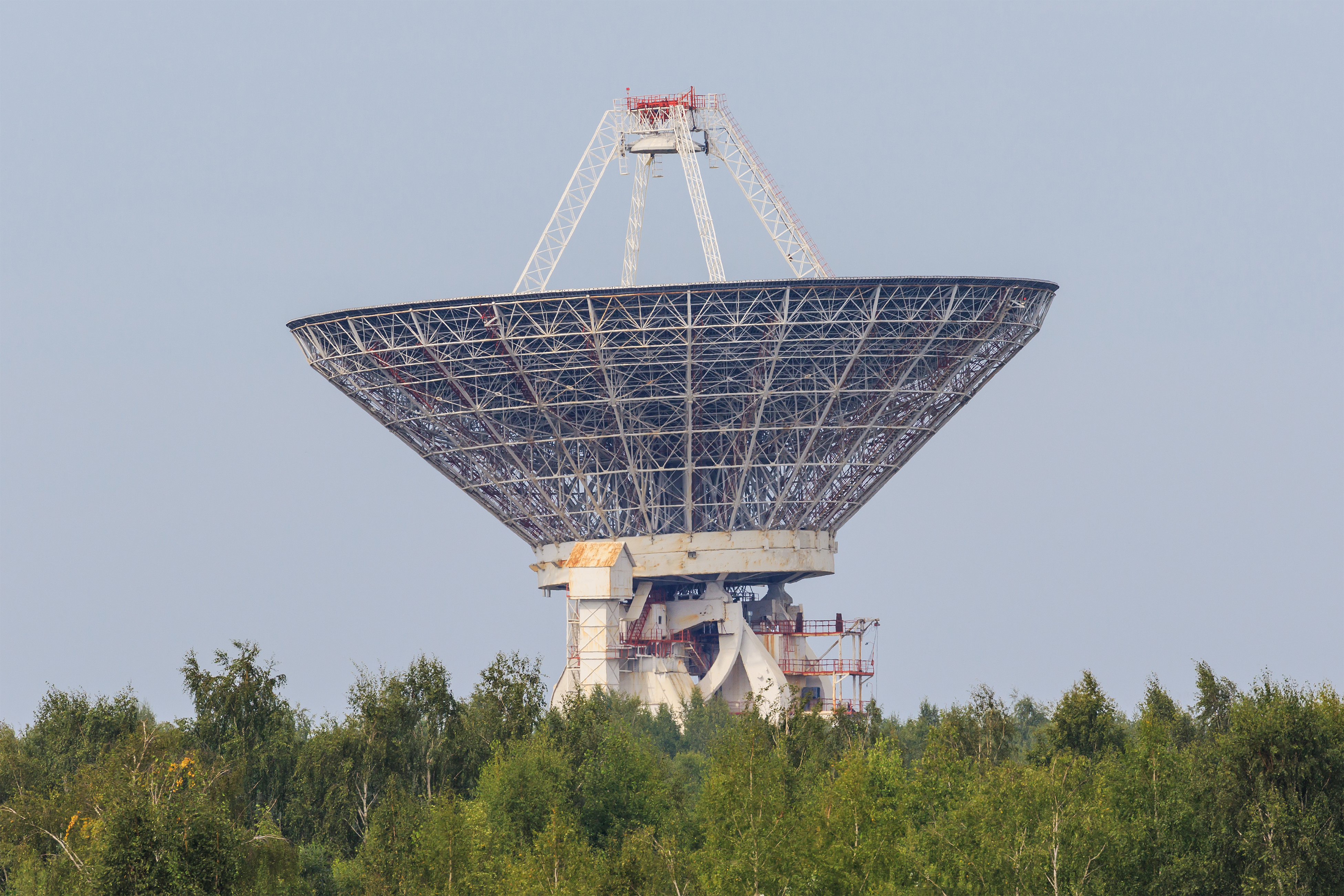 Remote view of the radio telescope of «Satellite Communications Center Medvezhyi Ozyora», Schyolkovsky District, Moscow Oblast, Russia